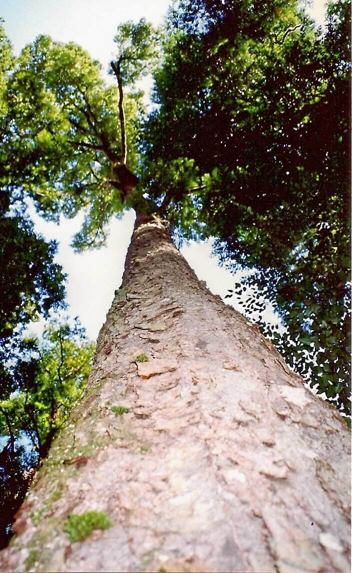 Nothofagus moorei, approx 50 metres tall, Cobark Park, Barrington Tops, Australia